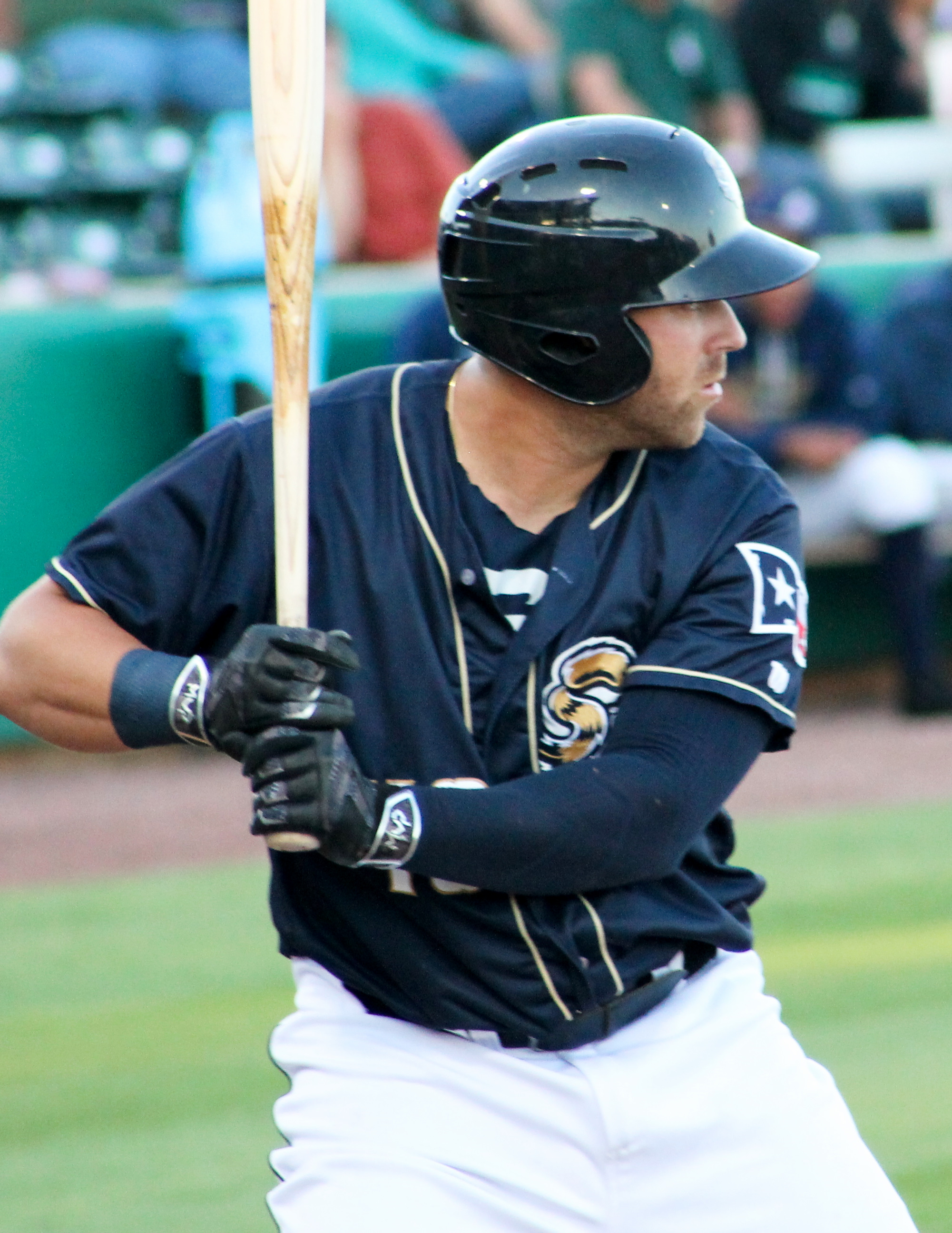 Professional baseball player Mike Olt at a minor league game with the San Antonio Missions in 2016.